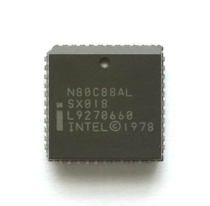 CPU Intel N80C88.